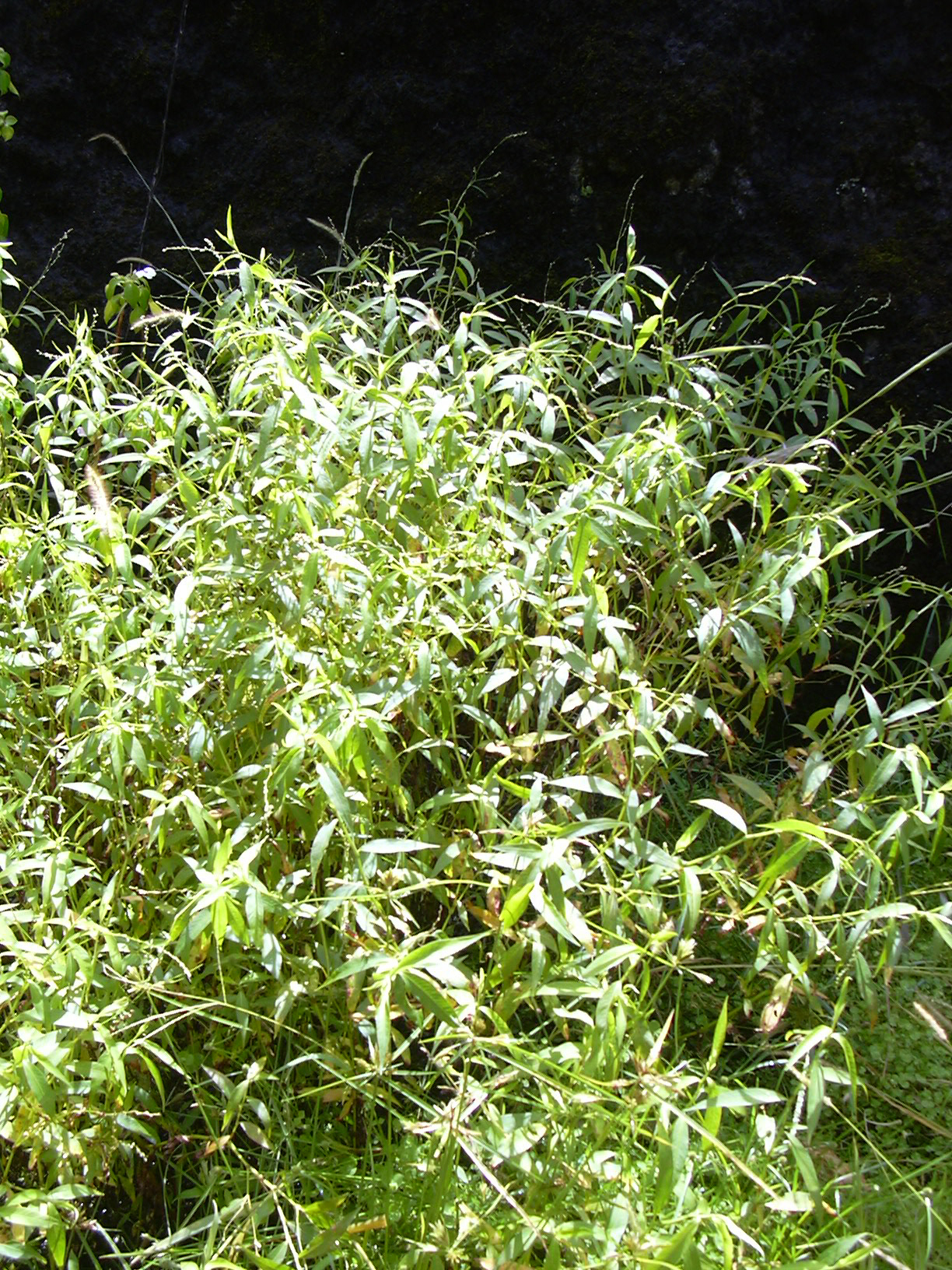 Persicaria punctata (habit). Location: Maui, Kopiliula